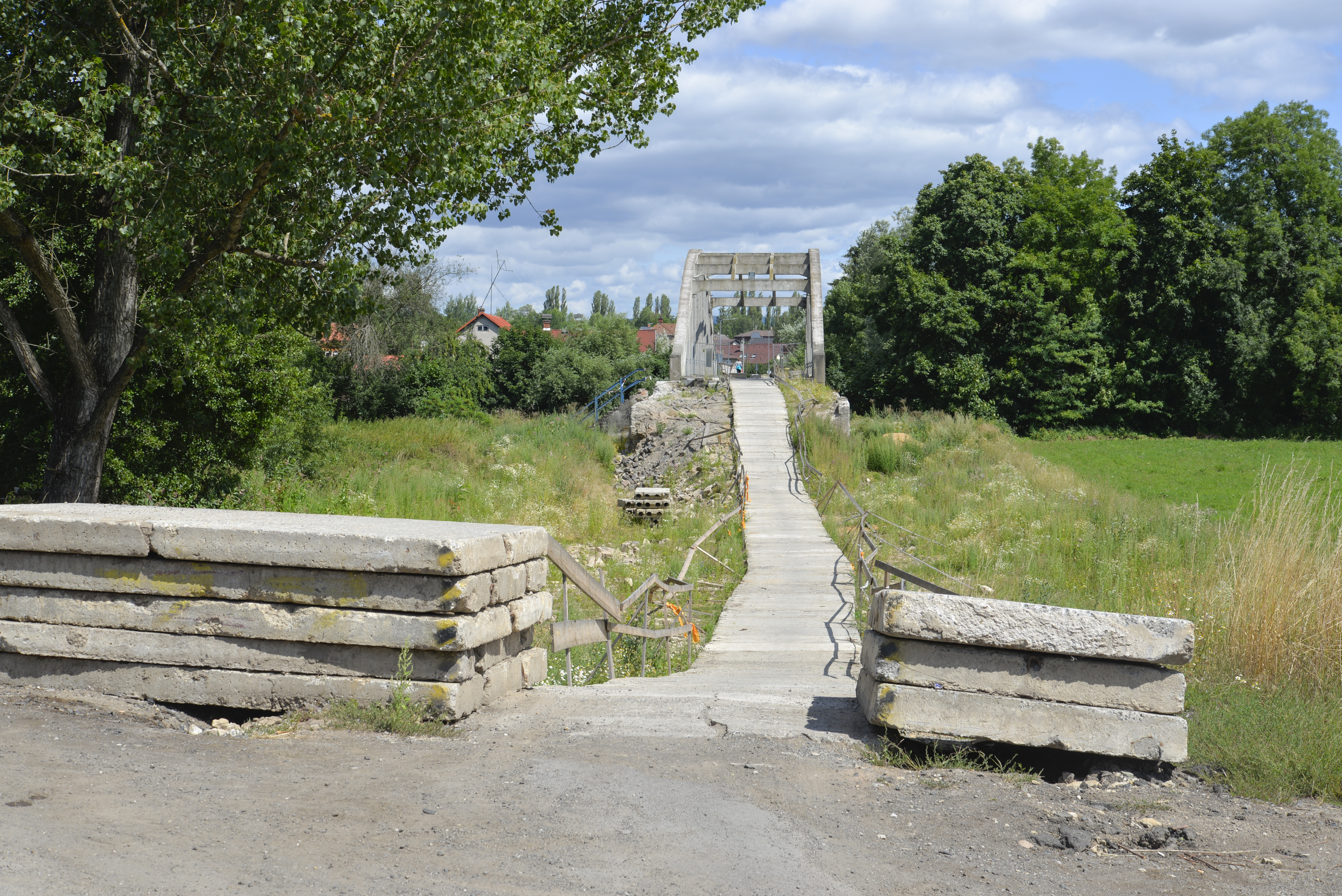 Reconstruction of the Svijany road bridge - situation after fall of part of the bridge on the left bank of the river